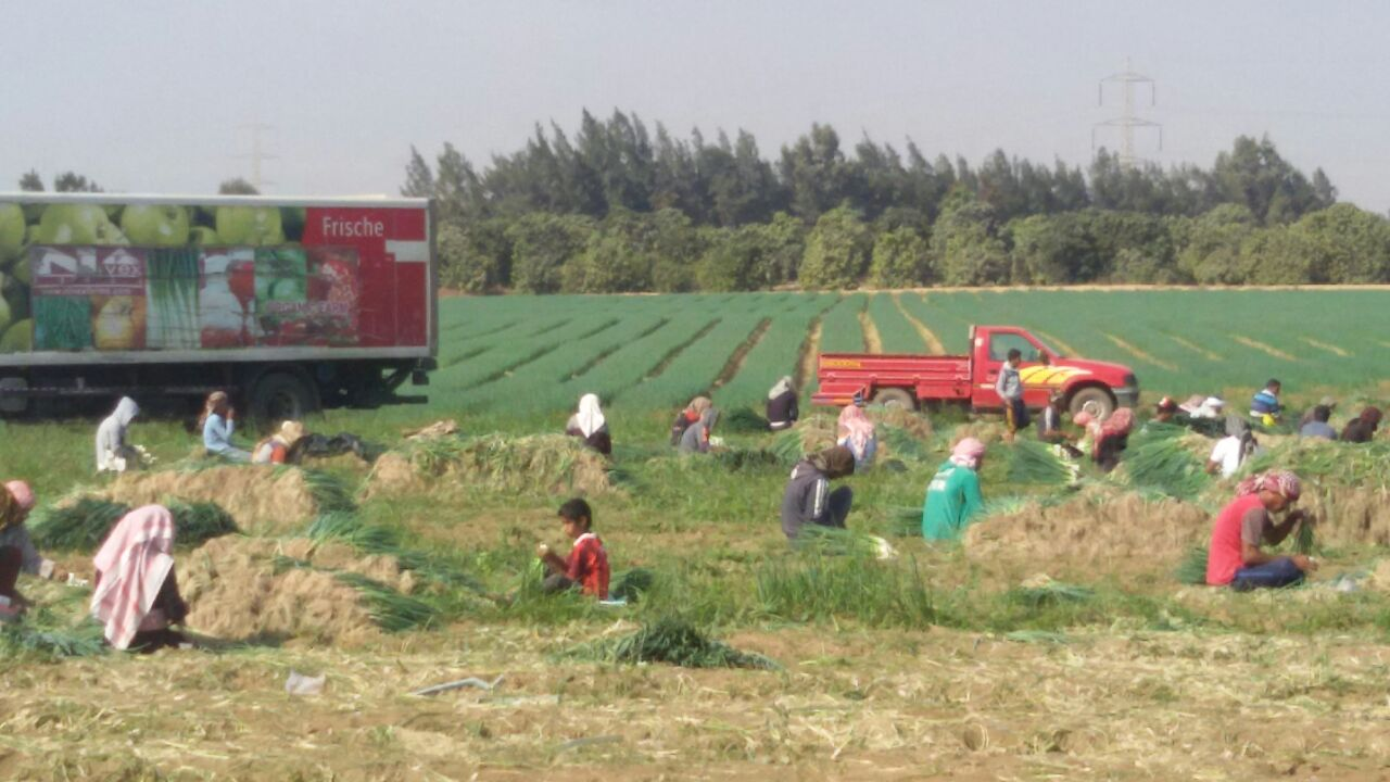 Farm workers collecting Spring Onion on the field This is an image of "African people at work" from Egypt